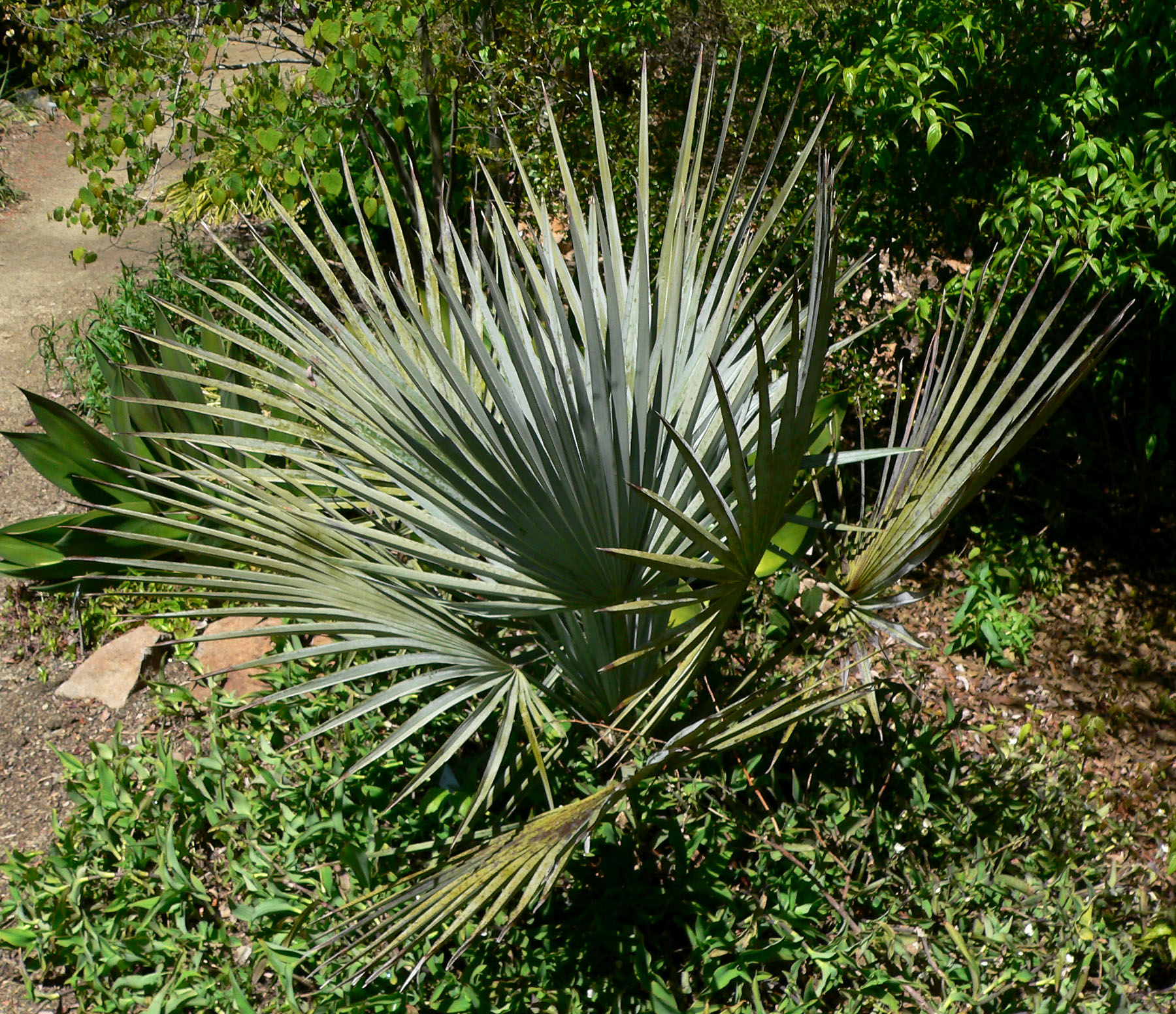 Brahea decumbens at the University of California Botanical Garden, Berkeley, California